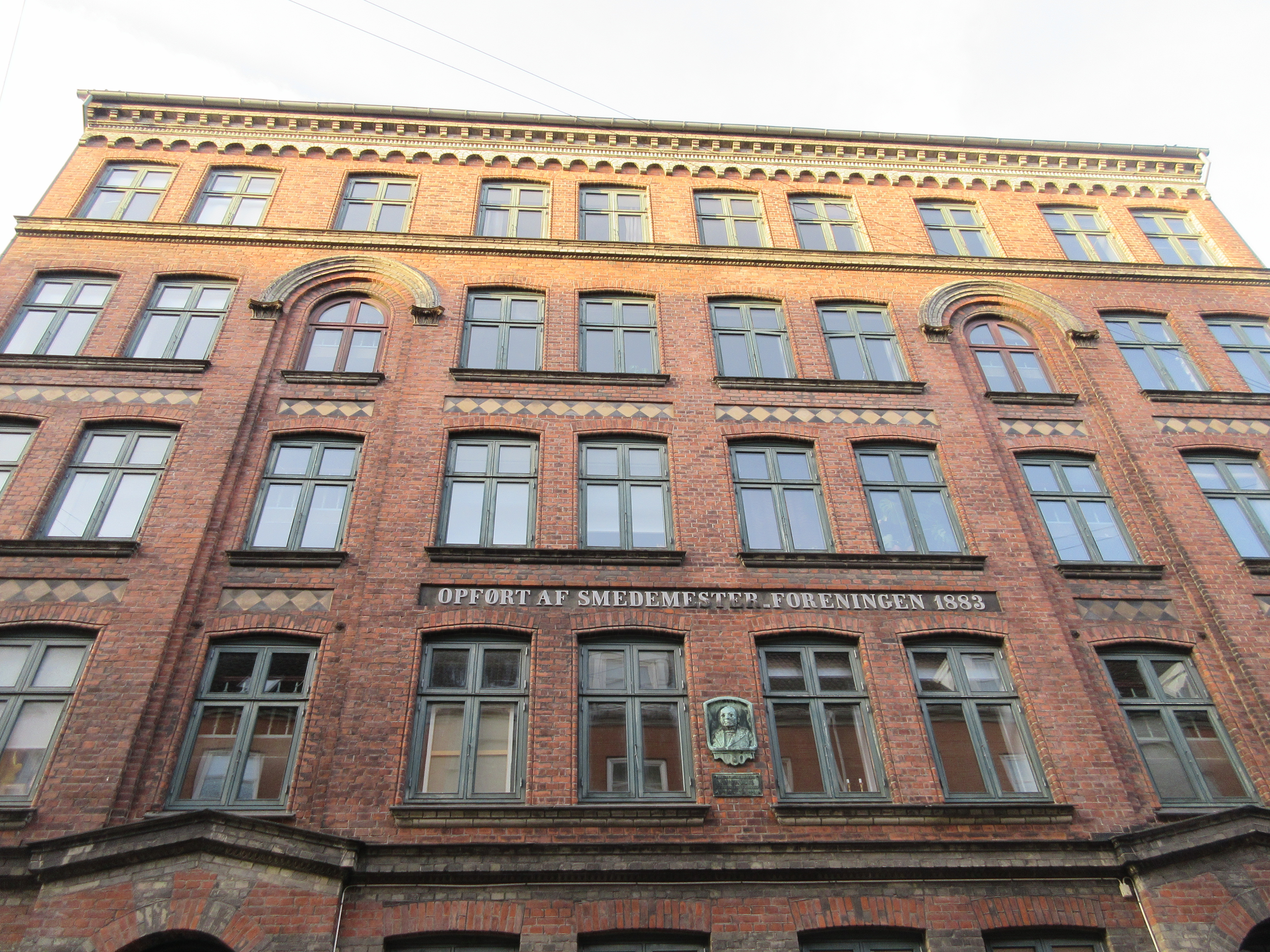 Smedemesterforeningen s Stiftelse